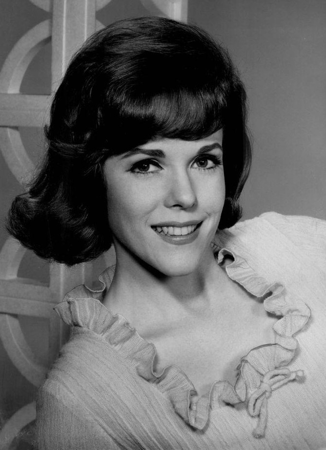 Photo of actress Eileen Fulton.